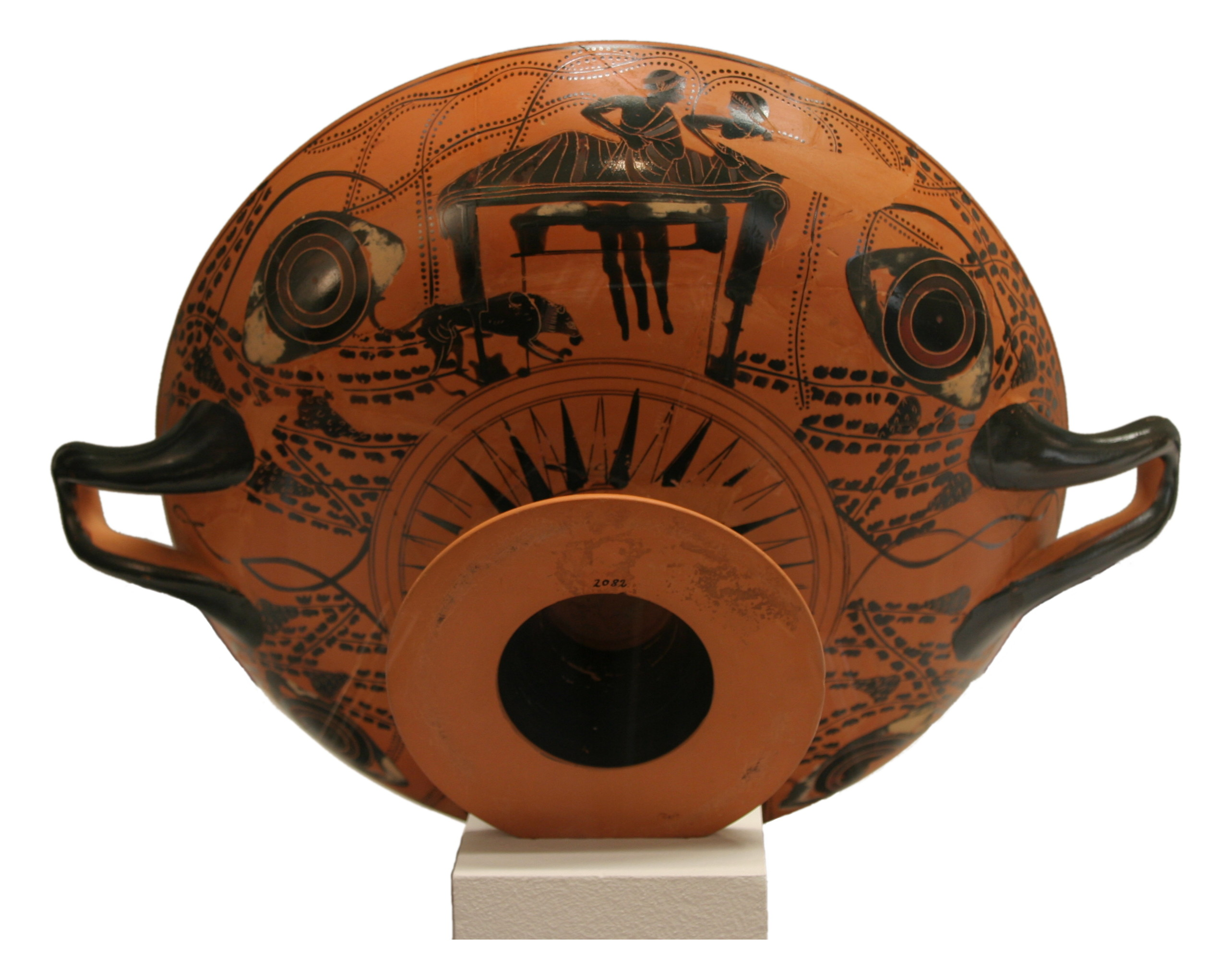 Two youths feasting in a vineyard, with a dog picking up scraps under the table. Attic black-figure kylix, ca. 530 BC.